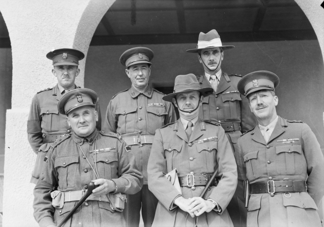 AWM caption : Ikingi Maryut, Egypt. Major General Iven Mackay, GMG, DSO, VD, commander of the 6th Australian Division and his senior officers. Front row, left to right: Brigadier A. S. Allen, DSO, MC, VD, commander of 16th Australian Infantry Brigade Major General I.G. Mackay Brigadier H.C.H. Robertson, DSO, commander of 19th Australian Infantry Brigade Back row, left to right: Colonel F.H. Berryman, DSO, General Staff Officer, Grade 1 (GSO1) Brigadier S.G. Savige, DSO, MC, ED commander of 17th Australian Infantry Brigade Colonel G. A. Vasey, DSO, Assistant Adjutant And Quartermaster General (AA&QMG)